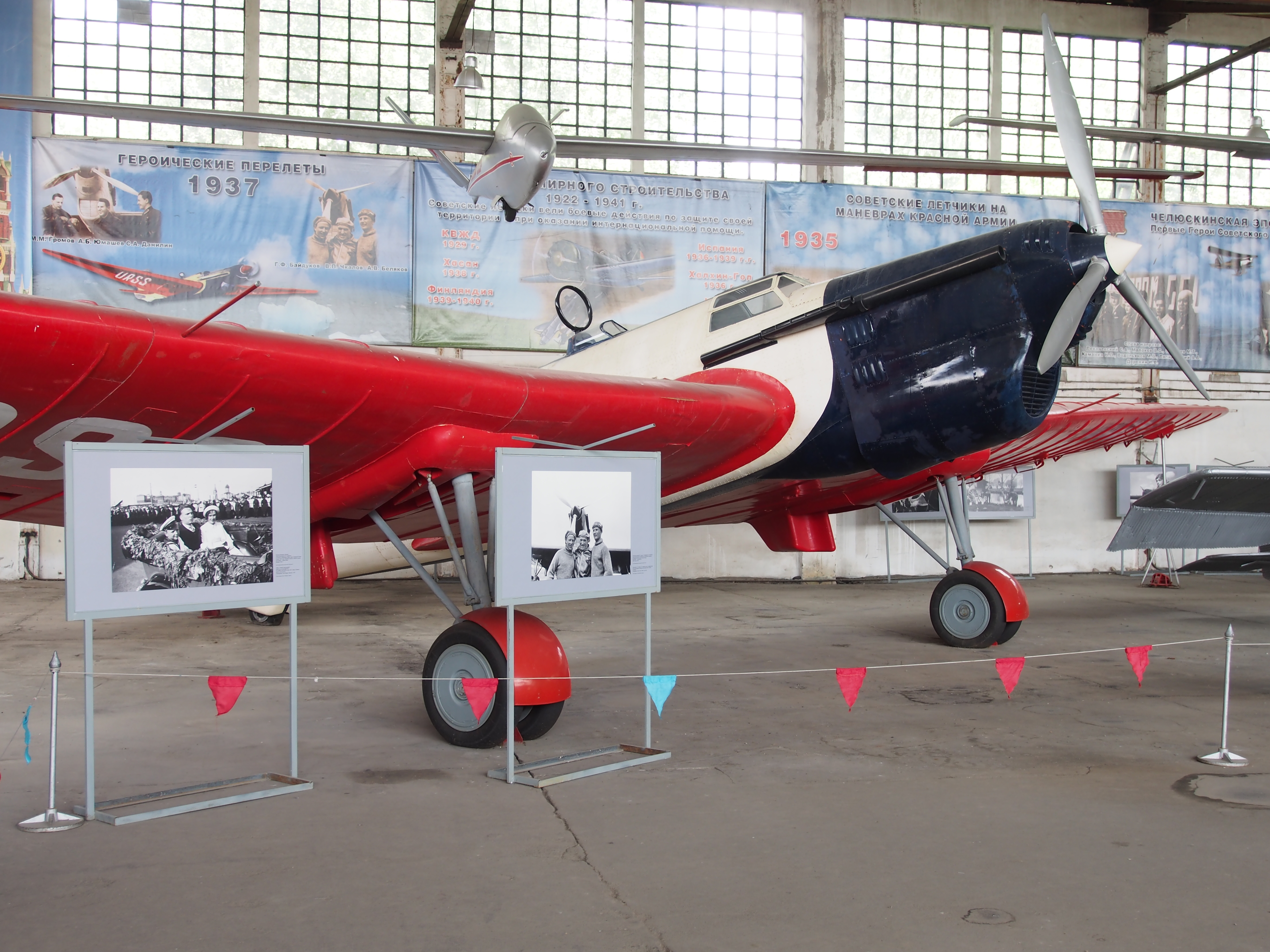 Photographed at the Central Air Force Museum, Monimo, Russia.